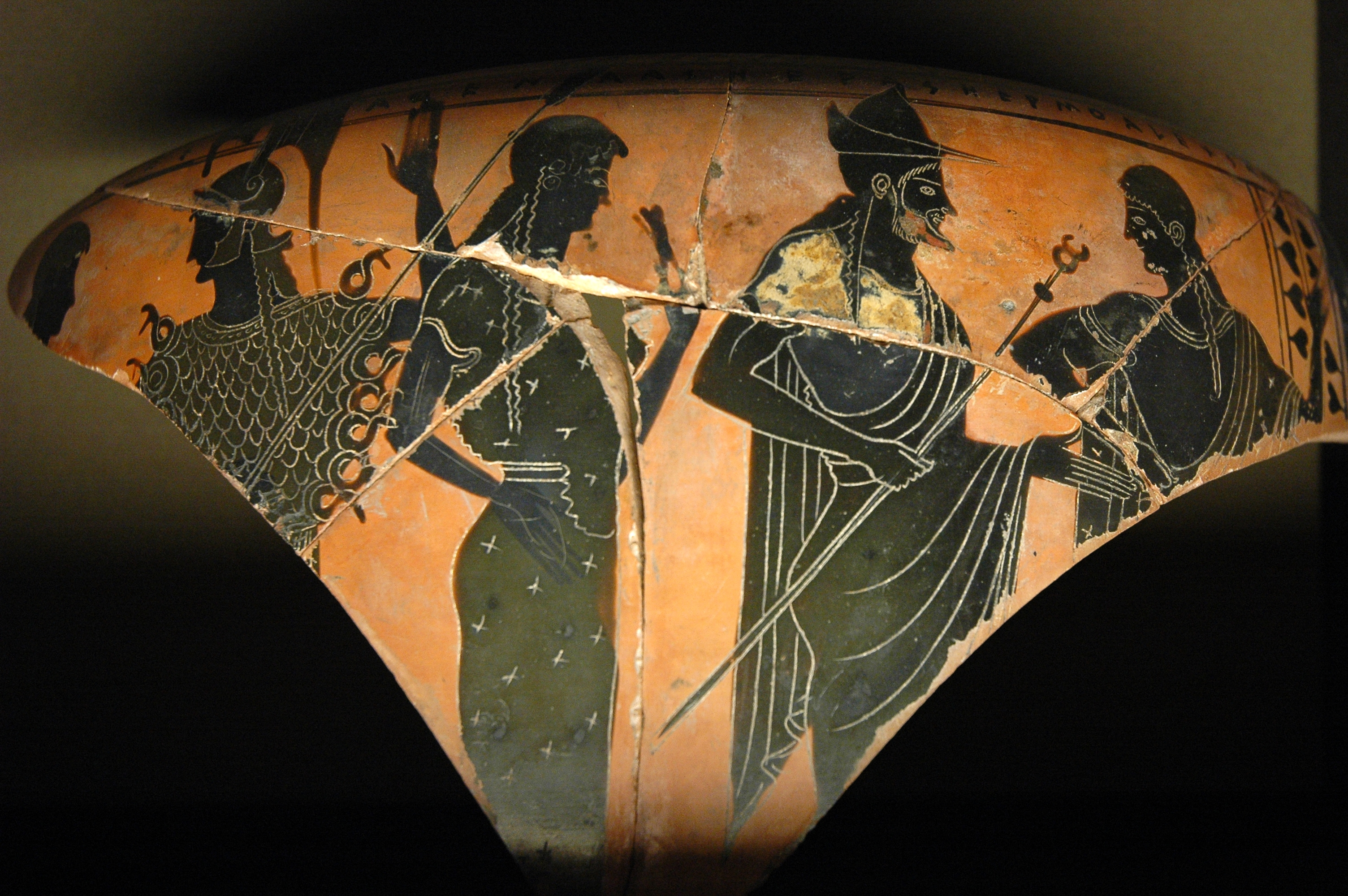 Judgement of Paris. Fragment of an Attic black-figure hydria, 520–510 BC. The name of each character is inscribed above his/her head.